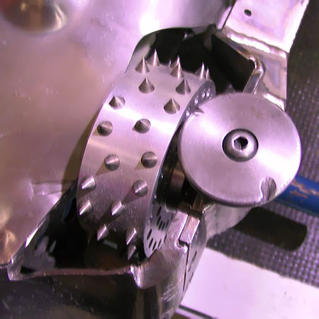 A close-up photograph of one of Robot Wars double world champion Razer's spiked front wheels.